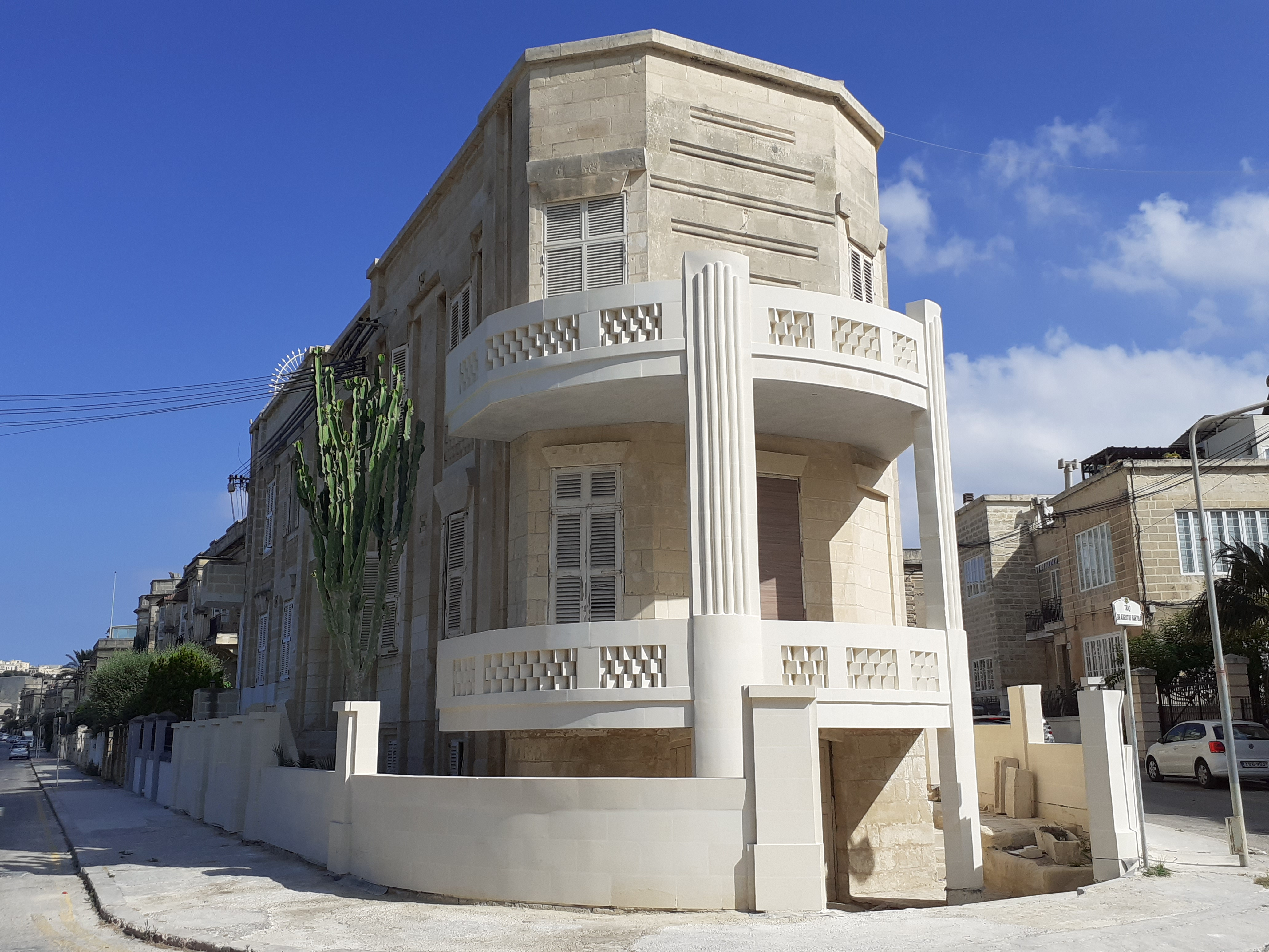 No. 55, ix-Xatt Ta' Xbiex (Villa Ebe)